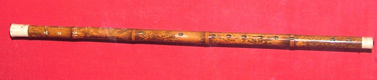 Chinese; Dizi; Aerophone-Blow Hole-side-blown flute (transverse)